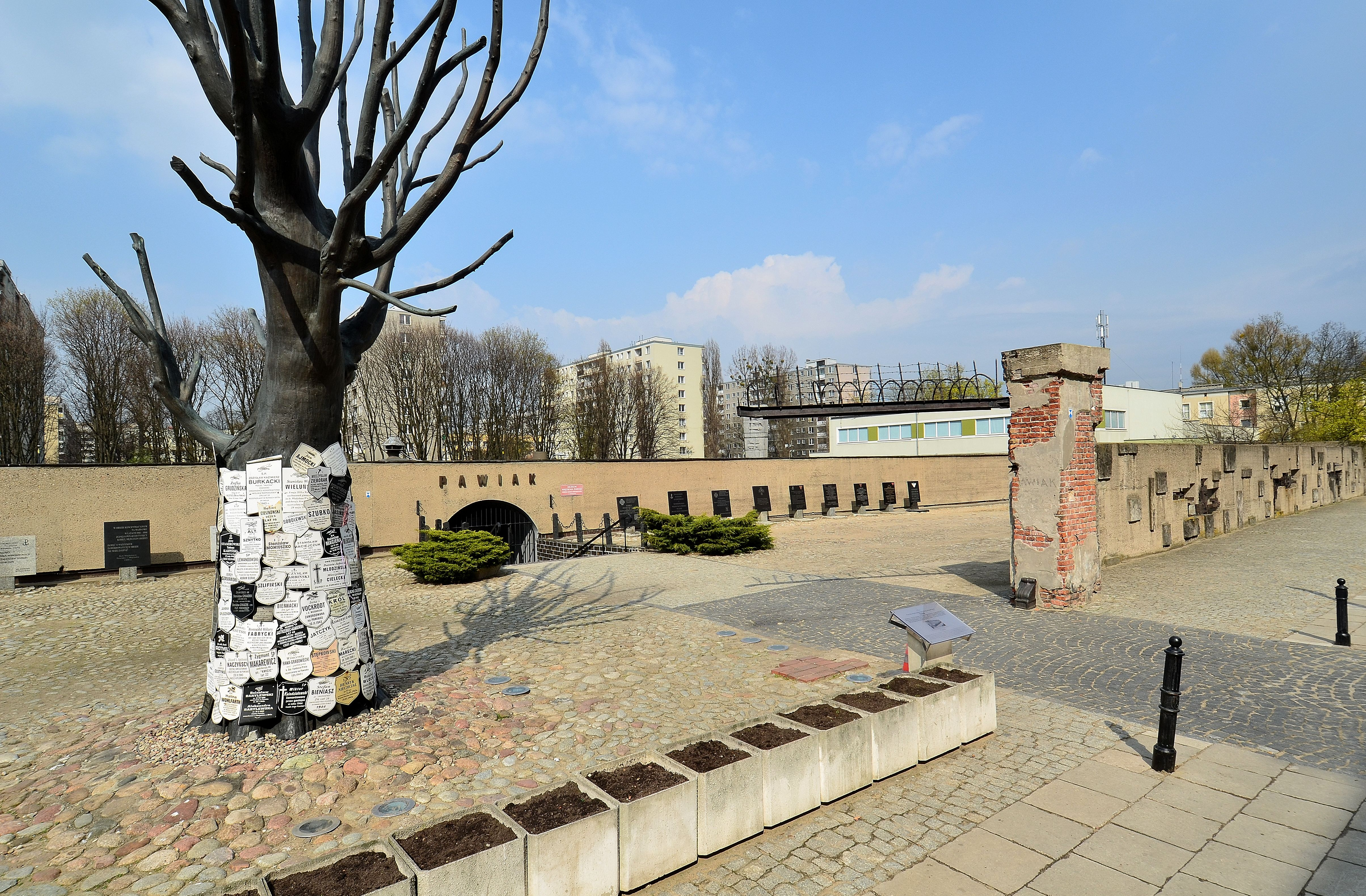 Site of Pawiak prison, viewed from Dzielna Street